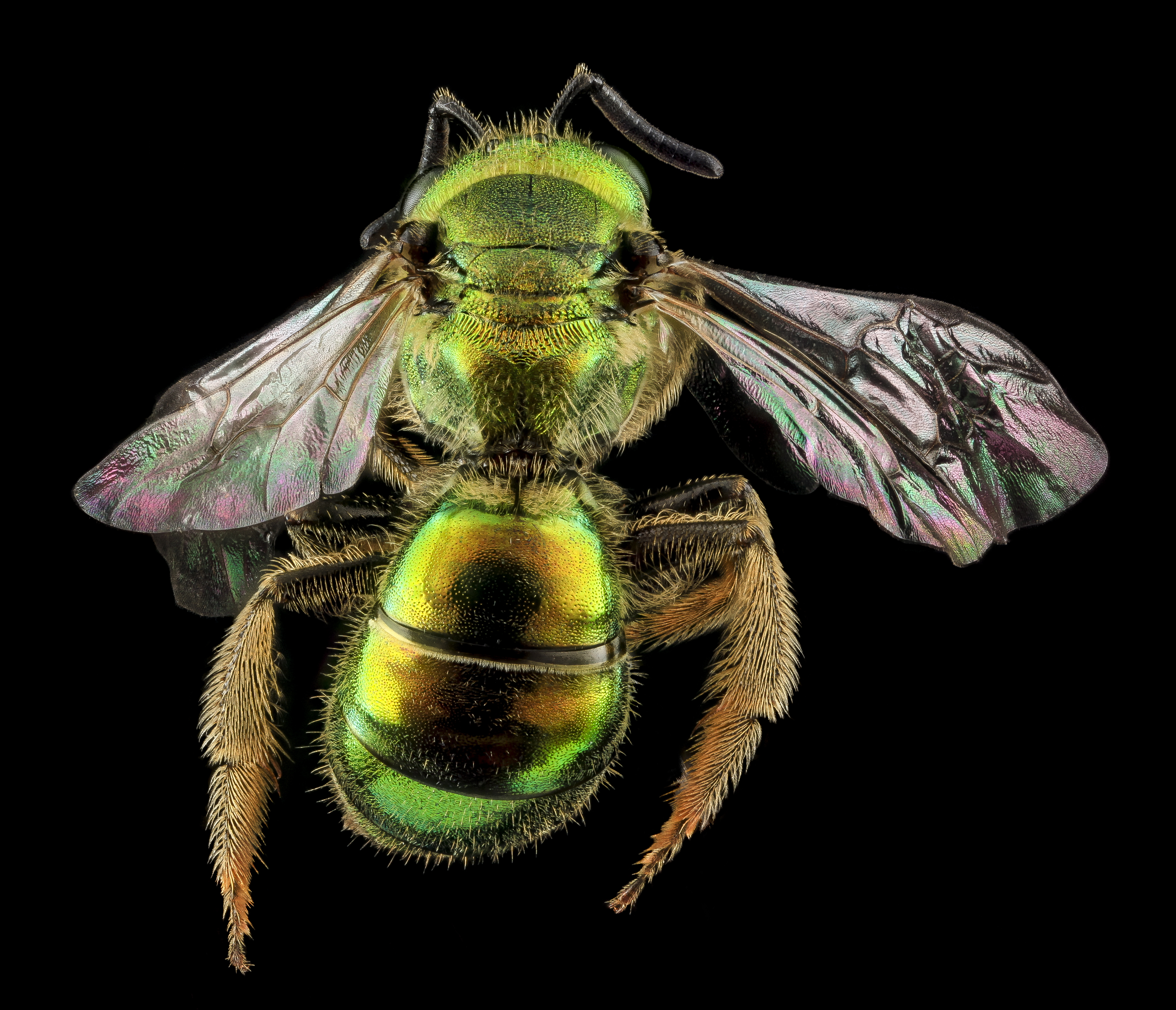 Augochlorella aurata